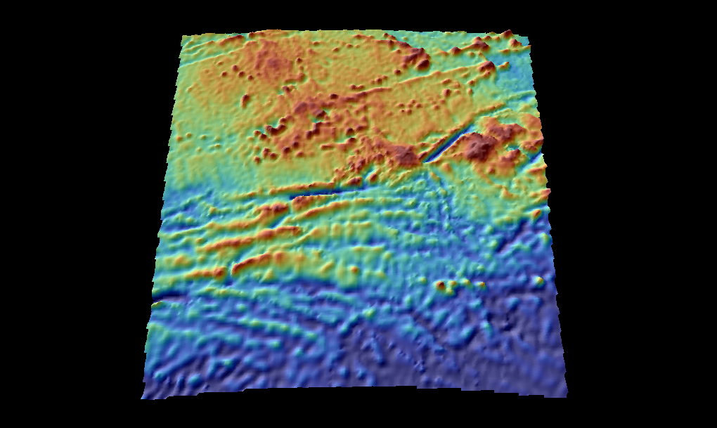 Bouvet Triple Junction and Bouvet Island. Left=10W, right=6E, front=60S, back=50S, front-back=1100km.